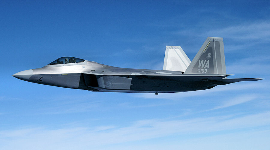 Maj. Micah Fesler, a 433rd Weapons Squadron pilot, flies an F-22A “Raptor” from the Lockheed-Martin factory in Georgia to Nellis AFB, Jan. 9. This Raptor is the first to be delivered to the 57th Wing from Lockheed-Martin, and is scheduled to be used by the U.S. Air Force Weapons School for training of PhD-level instructor pilots. (U.S. Air Force photo by Tech. Sgt. Phil Landram)